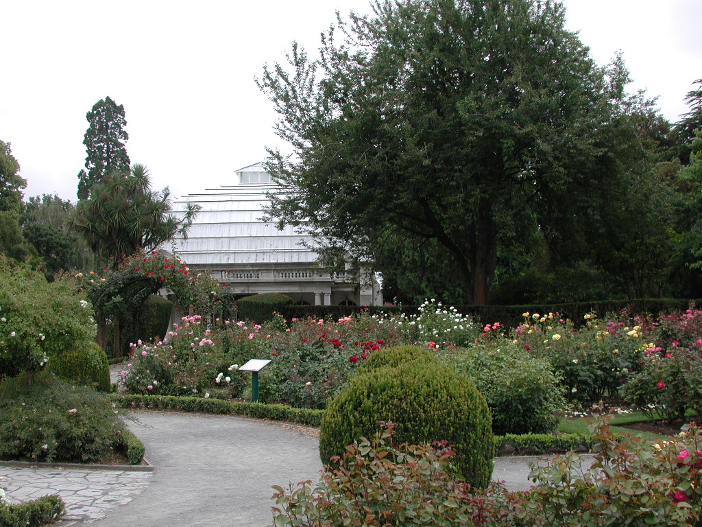 Christchurch's Central Rose Garden towards Cunningham House conservatories. Christchurch, New Zealand.